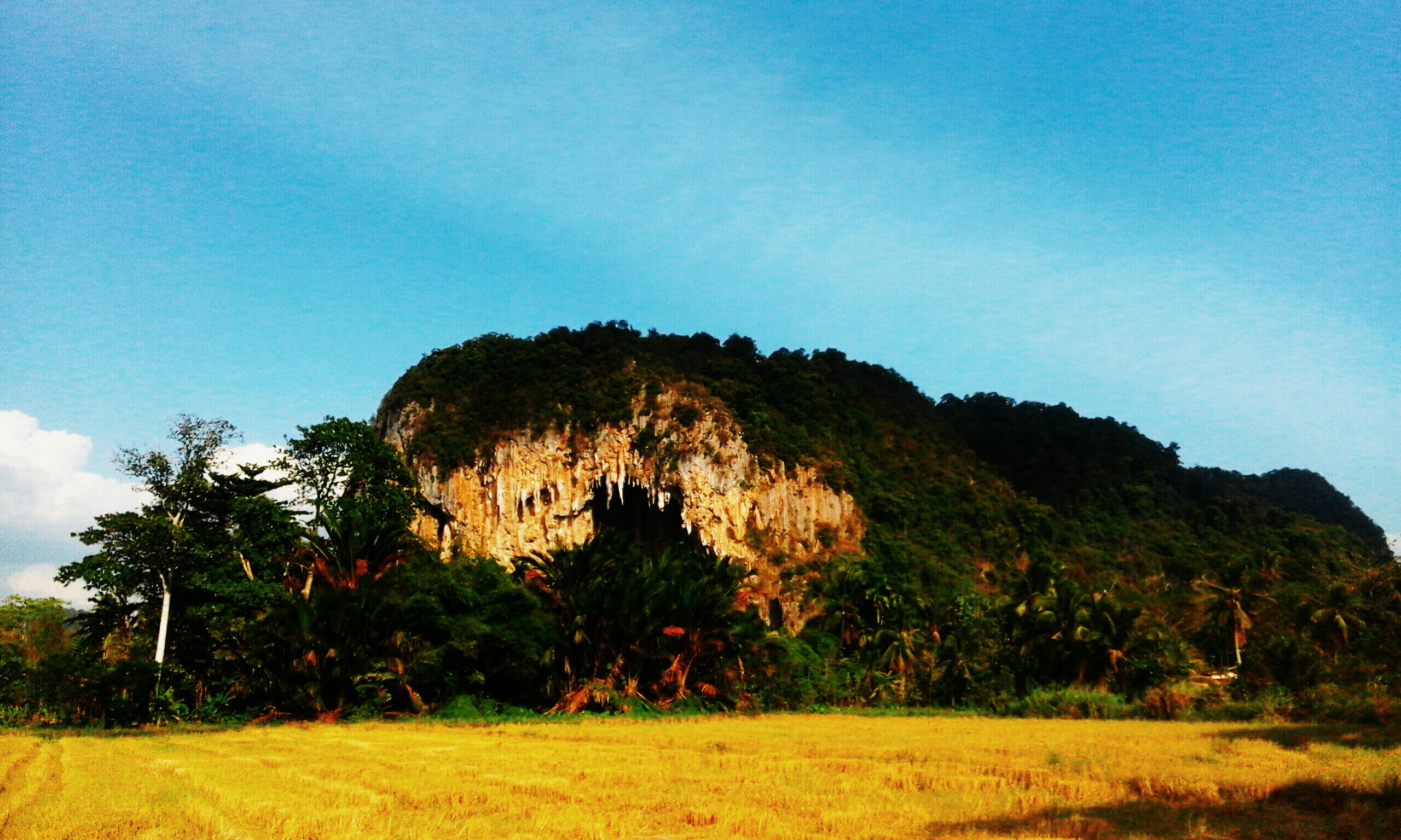 Mysterious Cave at Kodiang near Jitra, Kedah, Malaysia